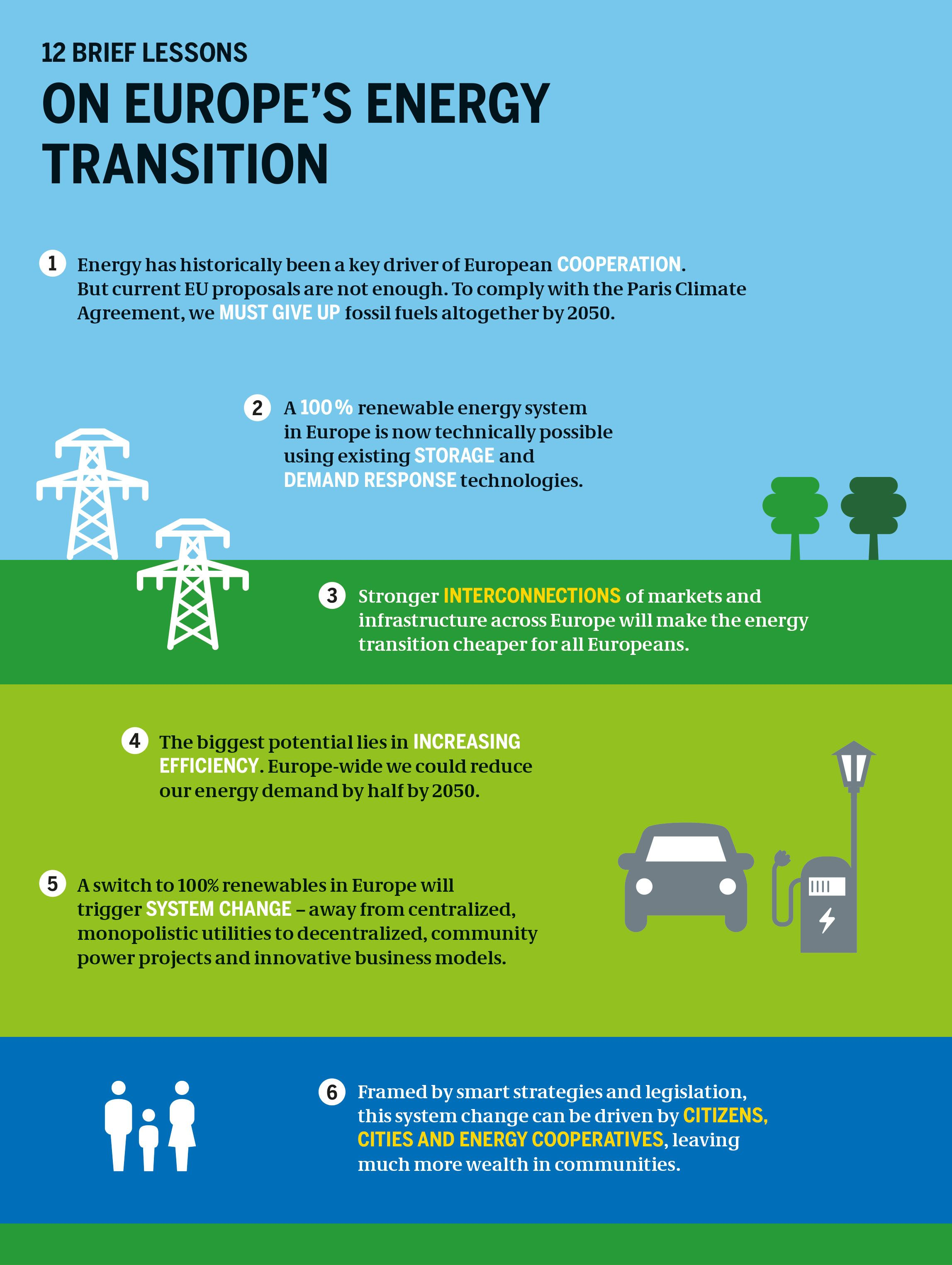 The first 6 of 12 brief lessons on Europe's energy transition